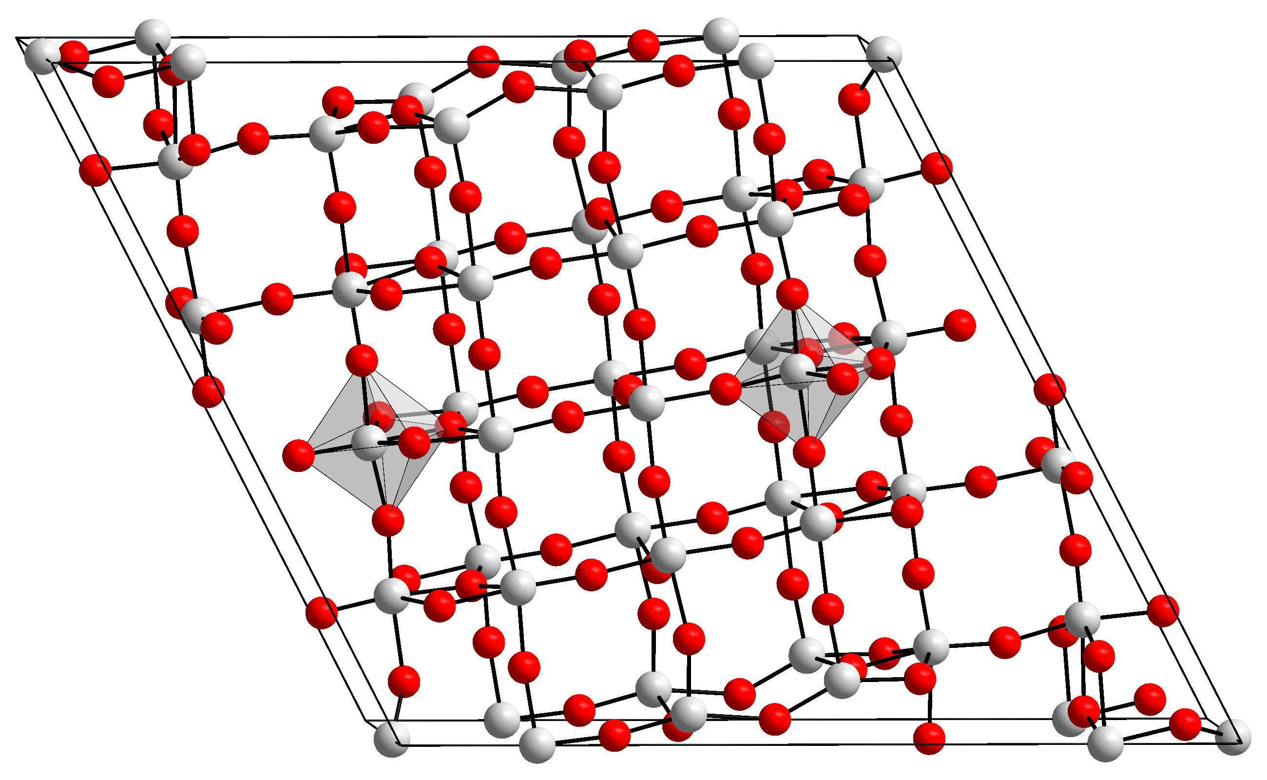 Crystal structure of niobium pentoxide